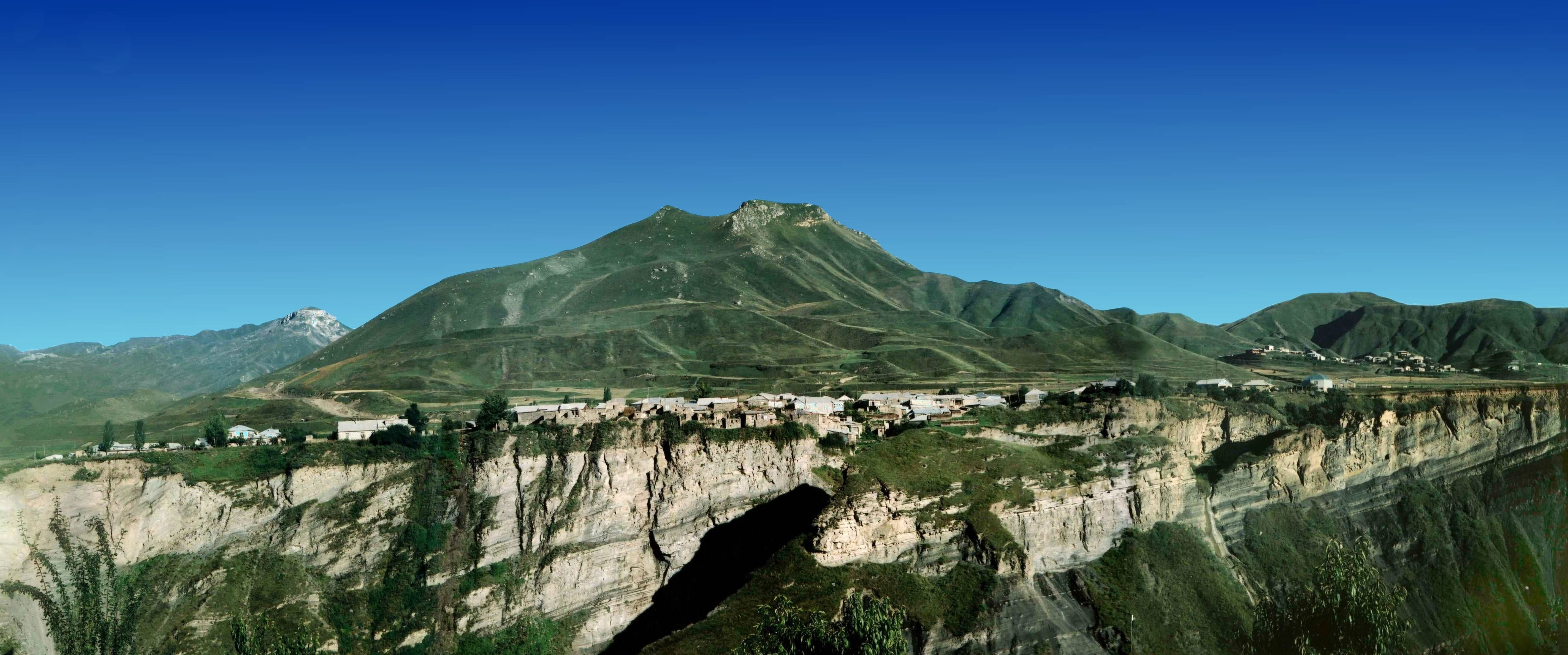 Huri.